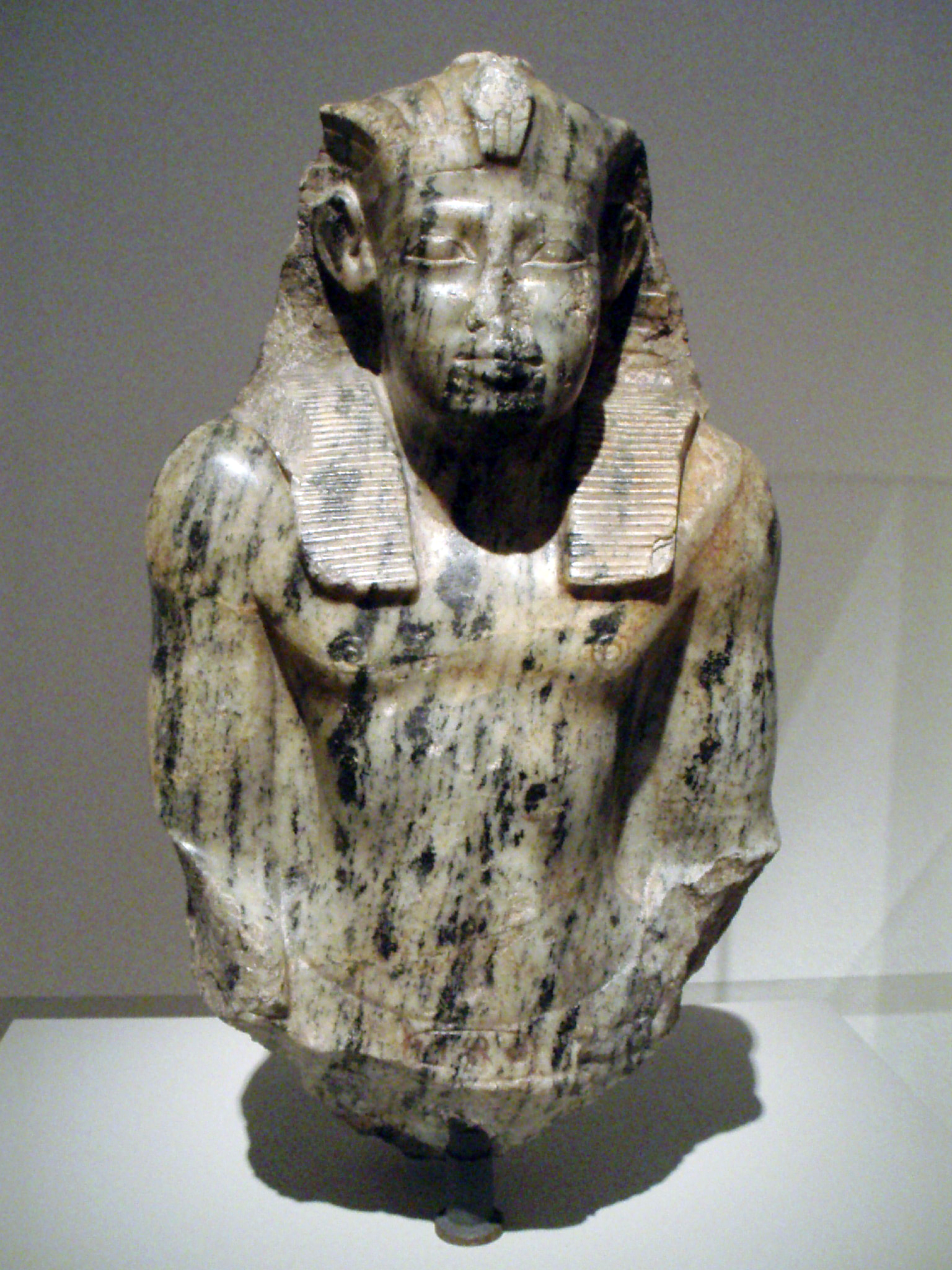 Photo of a fragmentary kneeling statue of the pharoah Sesostris I, taken at the Altes Museum, Berlin. 12th Dynasty. Catalog number: 1206.